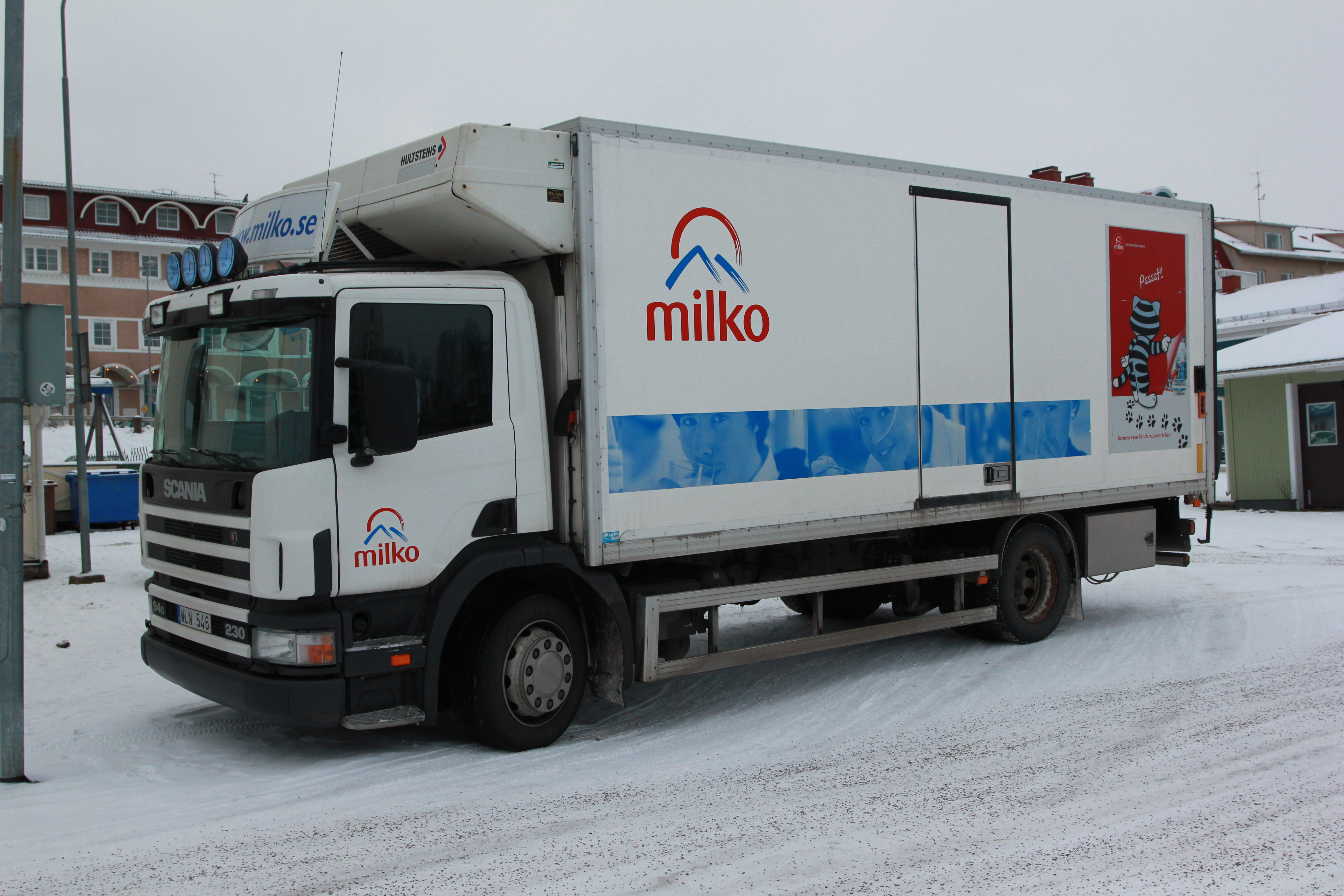 Scania 94D truck in former dairy company Milko's colours. At square August Lindbergs plan, Hedemora, Sweden.